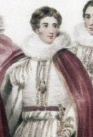 George, 2nd Marquess of Cholmondeley, from portrait showing King George IV with his train borne by eight sons of Peers and the Master of the Robes at his Coronation in 1821. Published as a plate to Nayler's 'History of the Coronation 1821' in 1824.